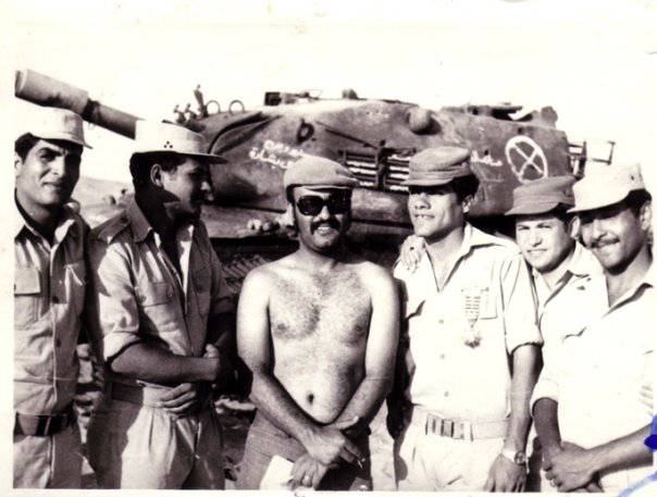 Khairy Beshara during the shoot of his first documentary (Tanks Hunter صائد الدبابات) in 1974